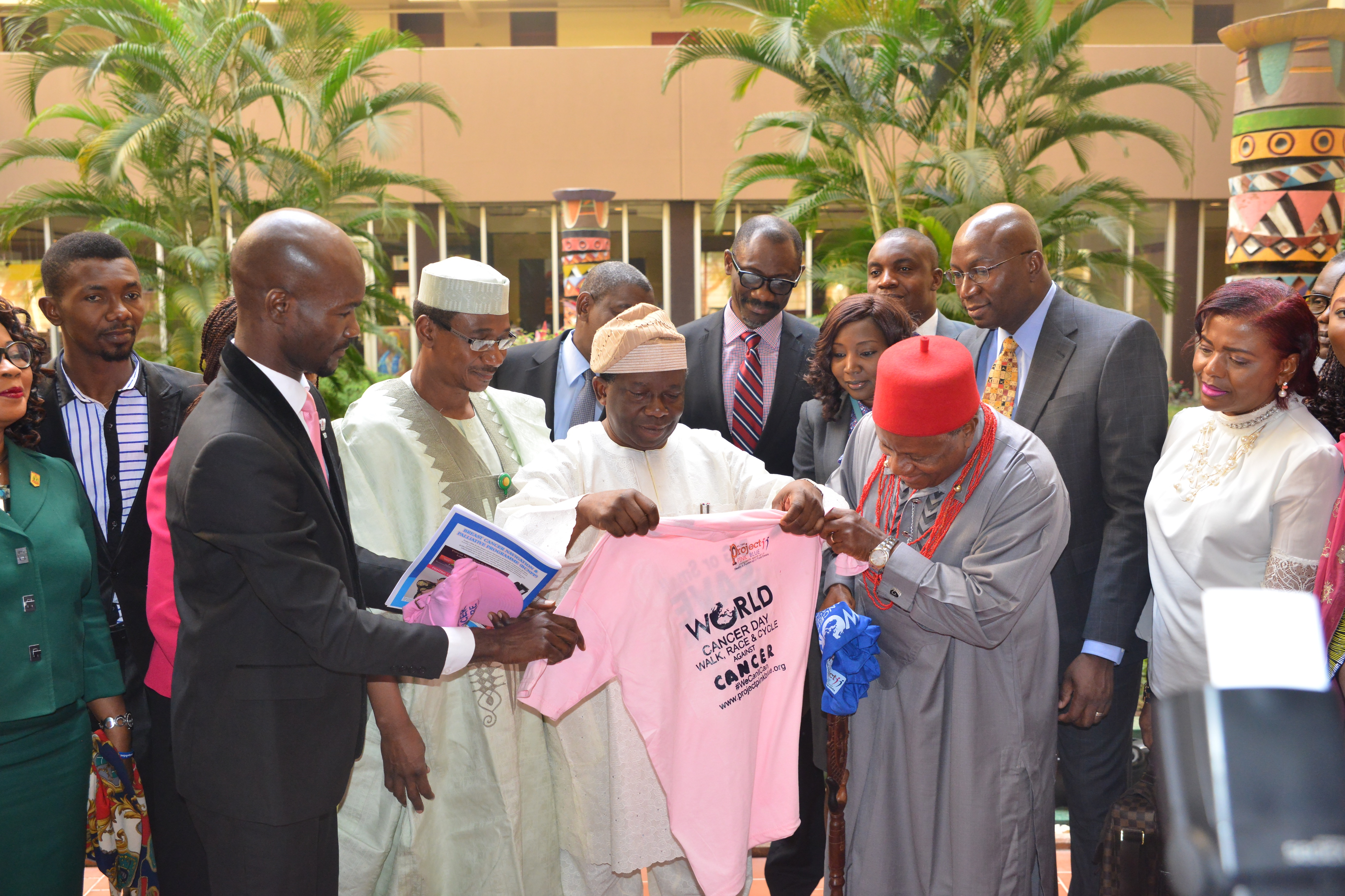 Runcie C.W. Chidebe, Executive Director and Prof. P.O. Ebigbo,Board Chair presenting the Official World Cancer Day 2016 Tshirt to Prof. Isaac F. Adewole, Honourable Minister of Health, ahead of the Walk, Race & Cycle against Cancer 6th